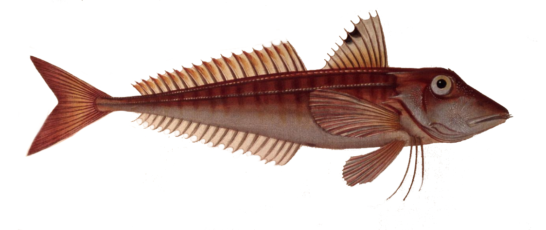 Chelidonichthys cuculus syn. Aspitrigla cuculus